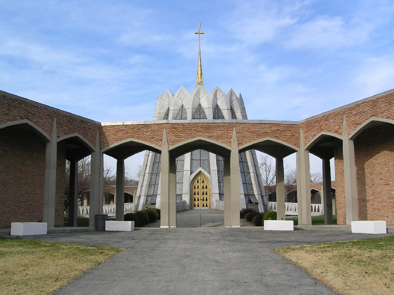 I took this photograph of the St. Francis of Assisi Chapel and Garden Mausoleum in Gate of Heaven Cemetery on November 27, 2006. — GNU Free Documentation License